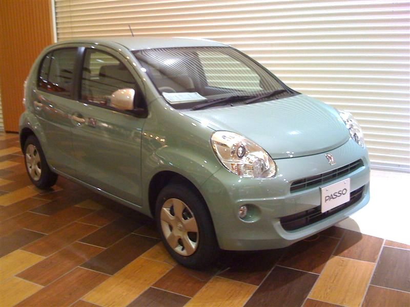 Toyota Passo